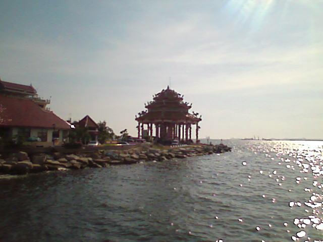 Ko loi temple